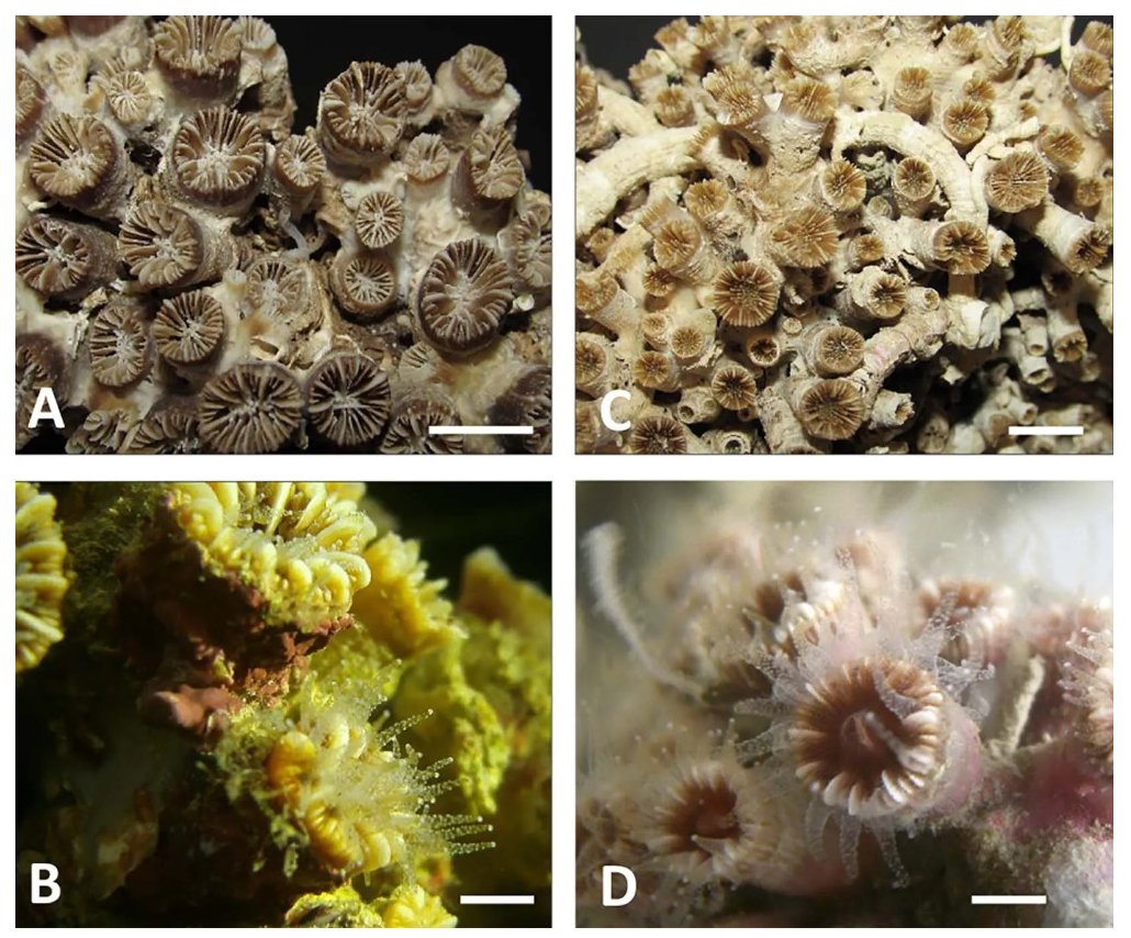 Bleached and in vivo coral colonies of Phyllangia americana mouchezii (left column: A,B) and Polycyathus muellerae (right column: C,D). Scale bars: A, C = 1 cm; B, D = 0.5 cm.